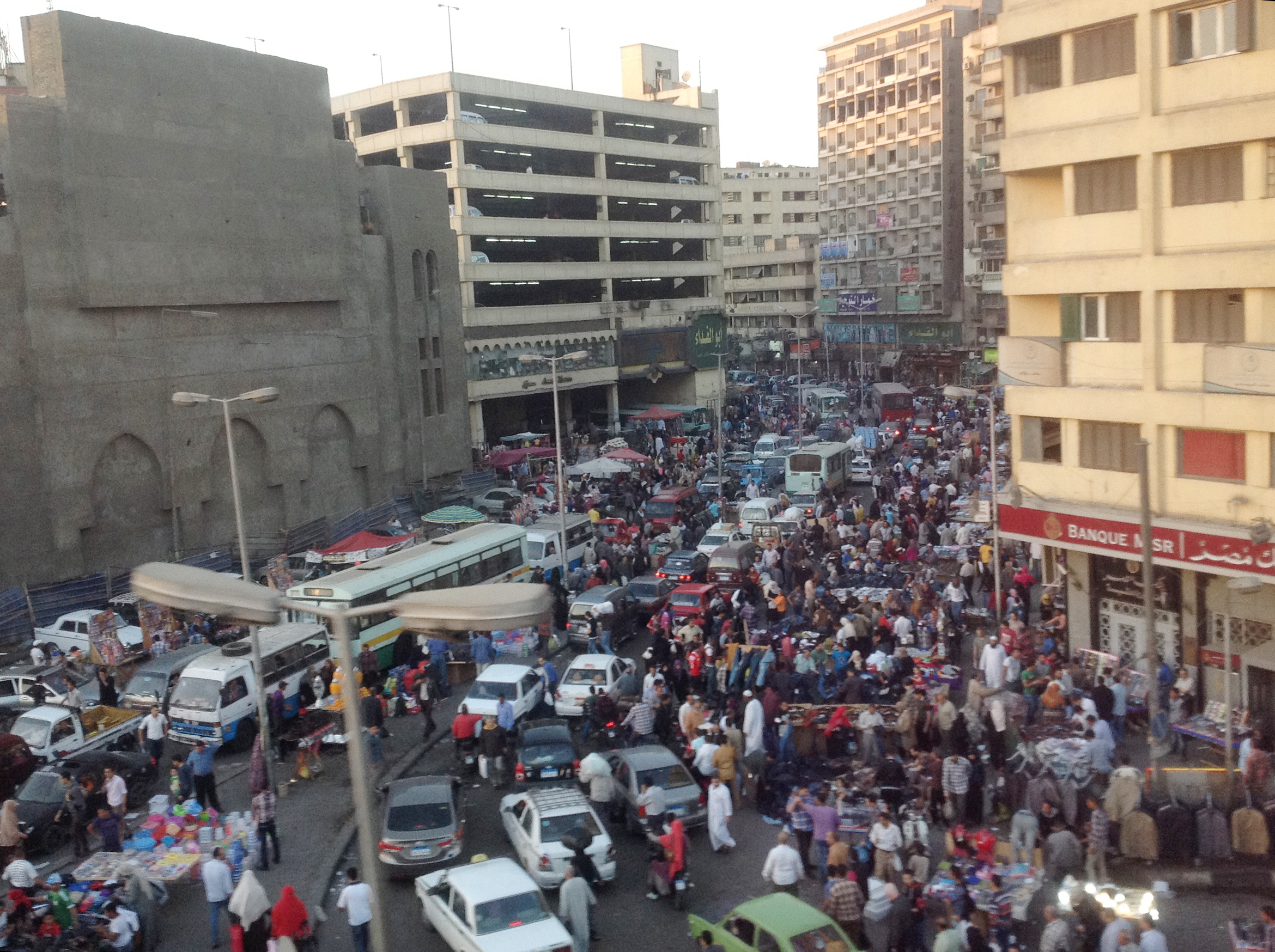 Street in Cairo